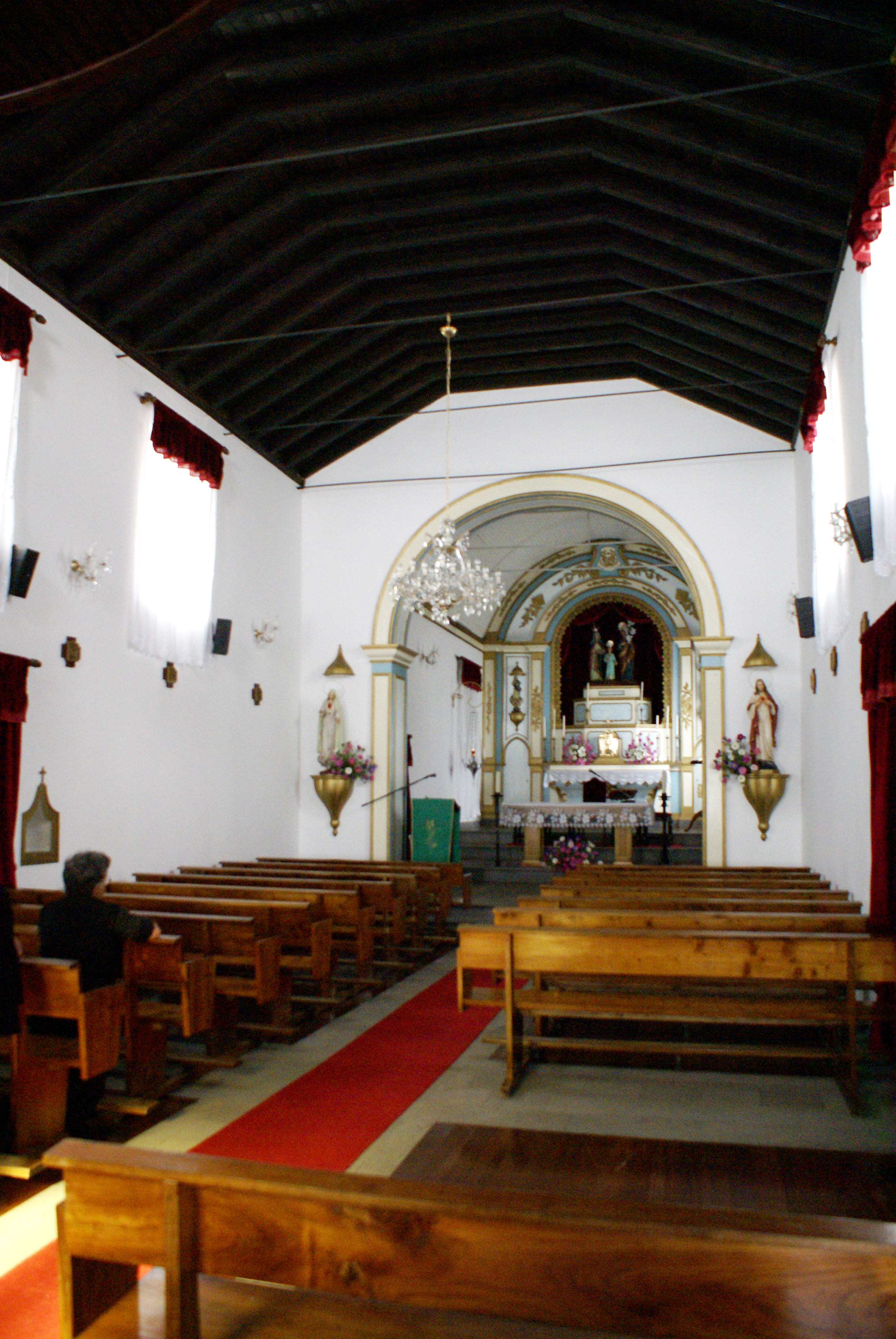 The central nave of the Church of Jesus, Maria e José, Várzea, Mosteiros, São Miguel (Azores), Portugal